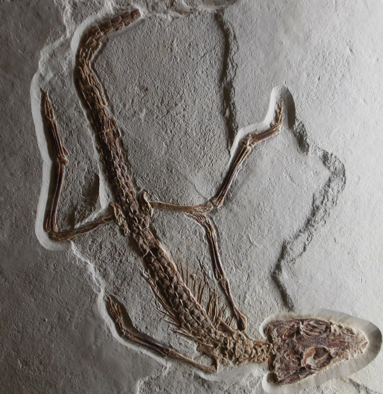 fossil of atoposaur crocodile